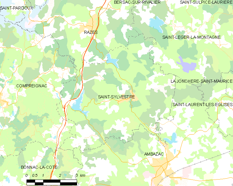 Map of French municipality Saint-Sylvestre